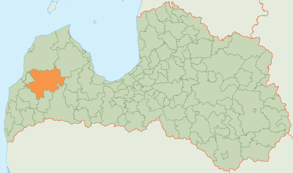 Map of Kuldīga municipality, Latvia